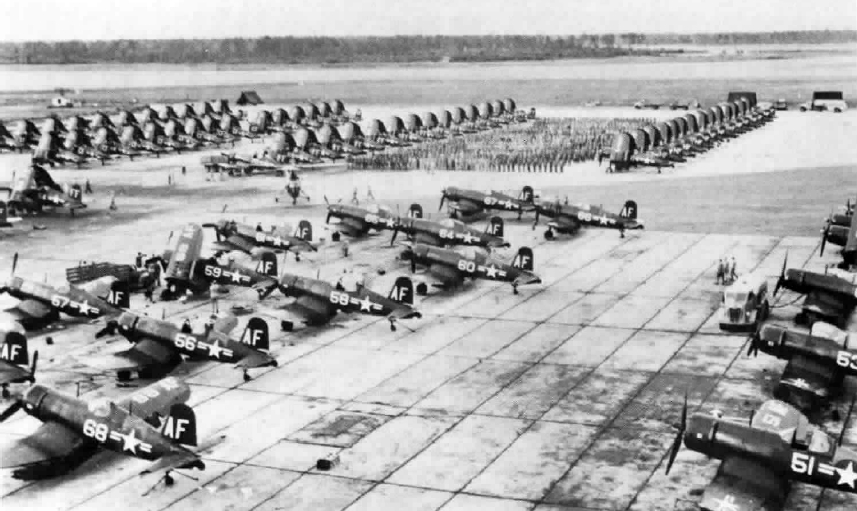 U.S. Marine Corps Vought F4U-4 Corsair fighters during their first major exercise after World War II at Marine Corps Air Station Cherry Point, North Carolina (USA), in August 1948. The Corsairs of Marine Fighter Squadron VMF-321 wear "AF" on their tail, as they were based at Naval Air Station Anacostia.